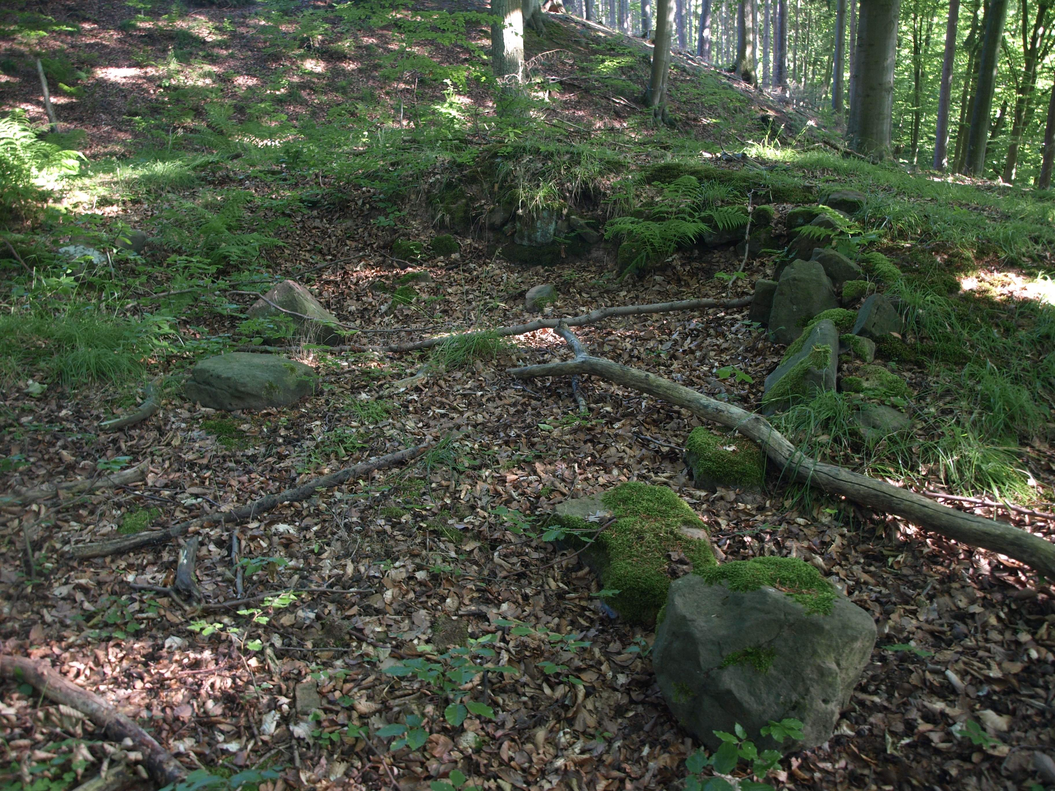 lamination of stones on the hill of the former castle Wallenfels